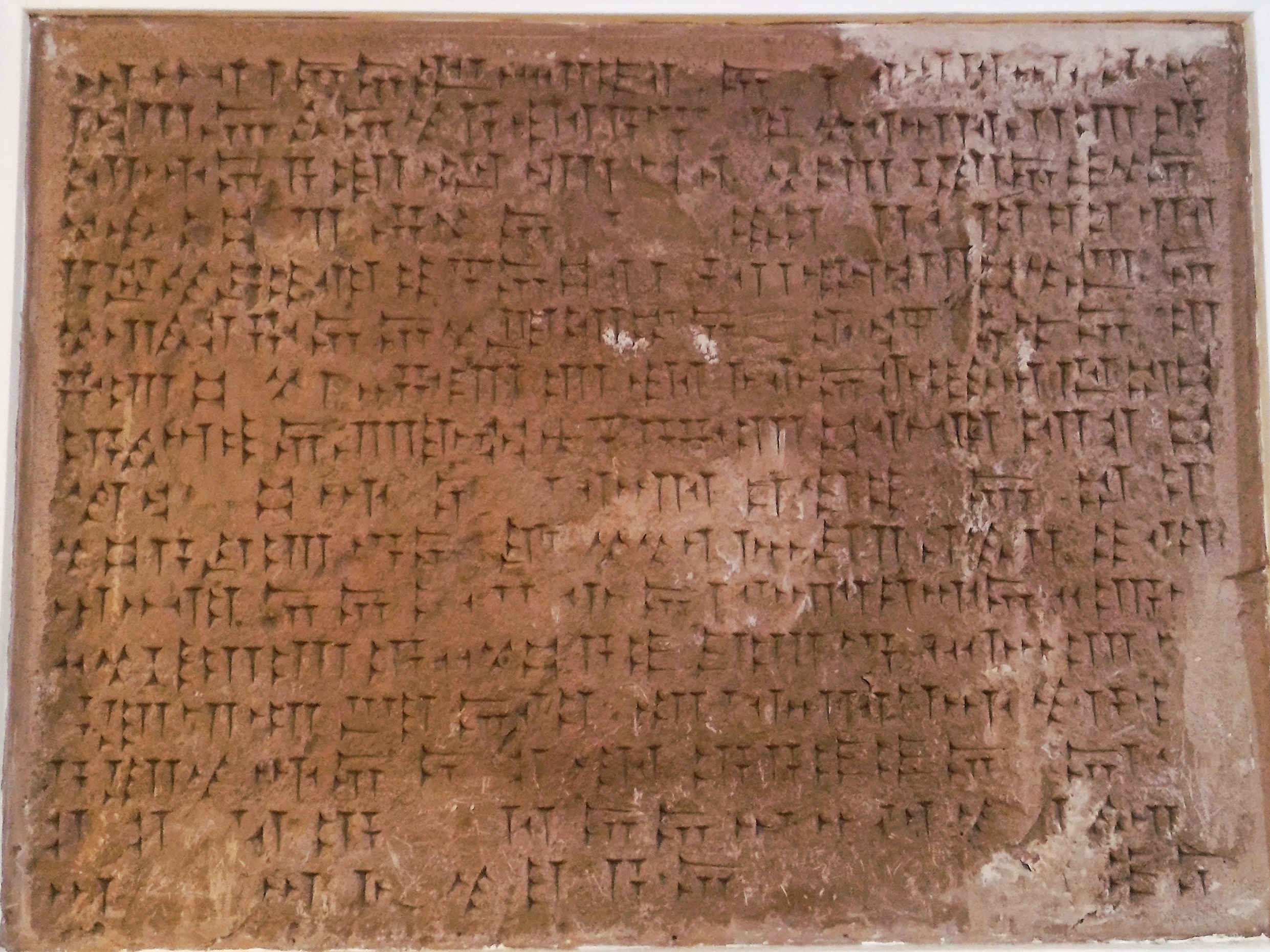 Razliq Rock Inscription-Urartian in Azerbaijan Museum